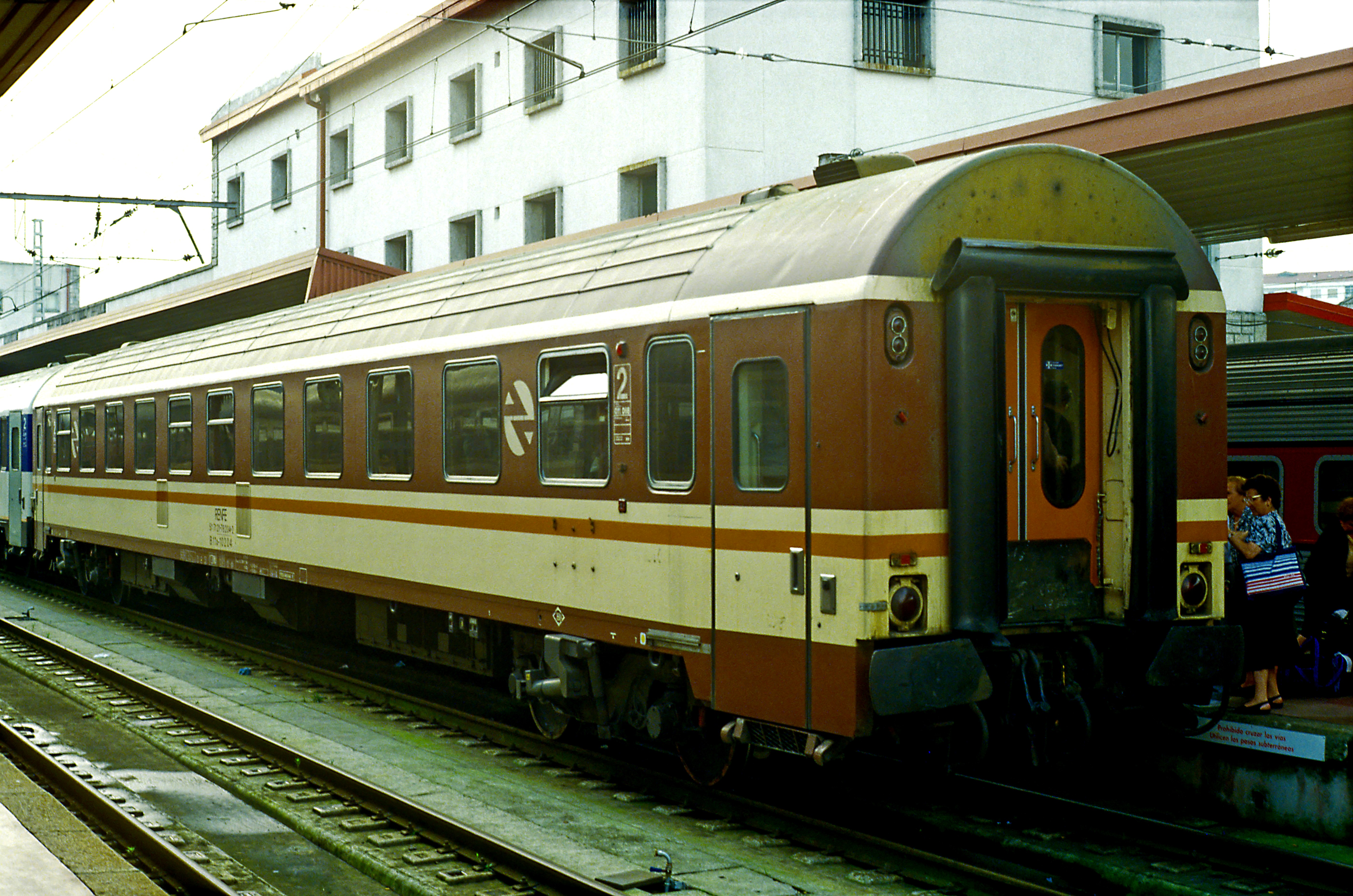 Renfe B11x-10200 coach (11 compartments, width 1.867 m) made by CAF on the basis of french Corail Vu coaches. Estrella night train.